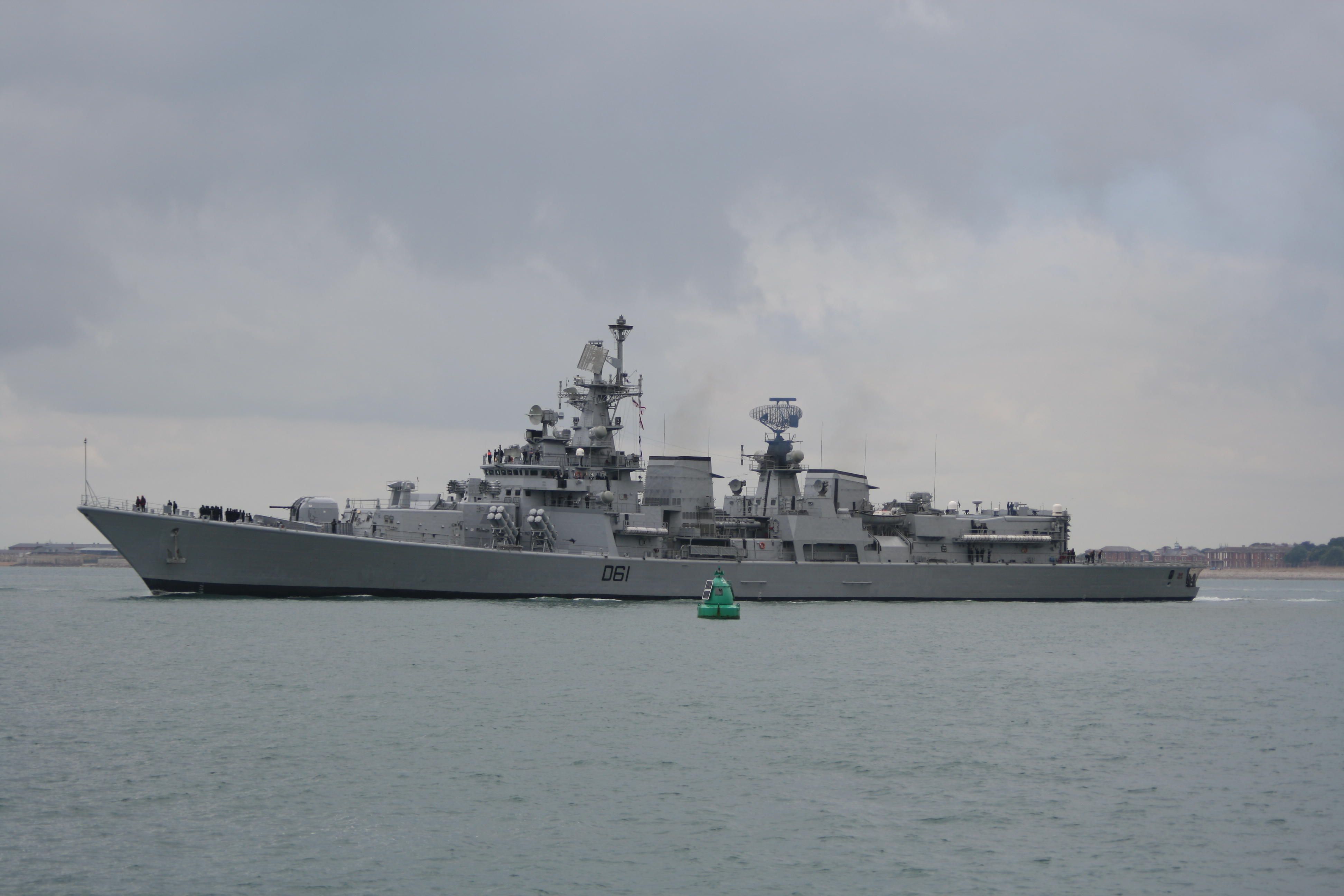 INS Delhi D61, an Indian Navy Delhi class guided weapon destroyer departing Portsmouth Naval Base, UK, 20th June 2009. Image uploaded by me User:George.Hutchinson from a photograph taken by and supplied by Brian Burnell. Wikipedia editors are reminded that the copyright remains with the photographer, and that the terms of the Creative Commons licence; that allow editors to reuse this image apply to Wikipedia editors also, as they do to other re-users of this image. Breaches of the licence terms are not only unlawful, but are also antisocial, in that breaches discourage photographers from making their images freely available to everyone without payment. Wikipedia re-users are also reminded of the license terms that derivatives of this image should not imply that the adaptation is endorsed or approved by the author or copyright holder. Neither should derivatives be presented as the creation of the author or copyright holder, while clearly stating that the adaptation is a derivative of the original. Attribution online should be in this format Brian Burnell. On the printed page, a simpler form is acceptable - example: "Image: Brian Burnell". Non-Wikipedia users are requested to advise Brian Burnell of its use other than on Wikipedia.